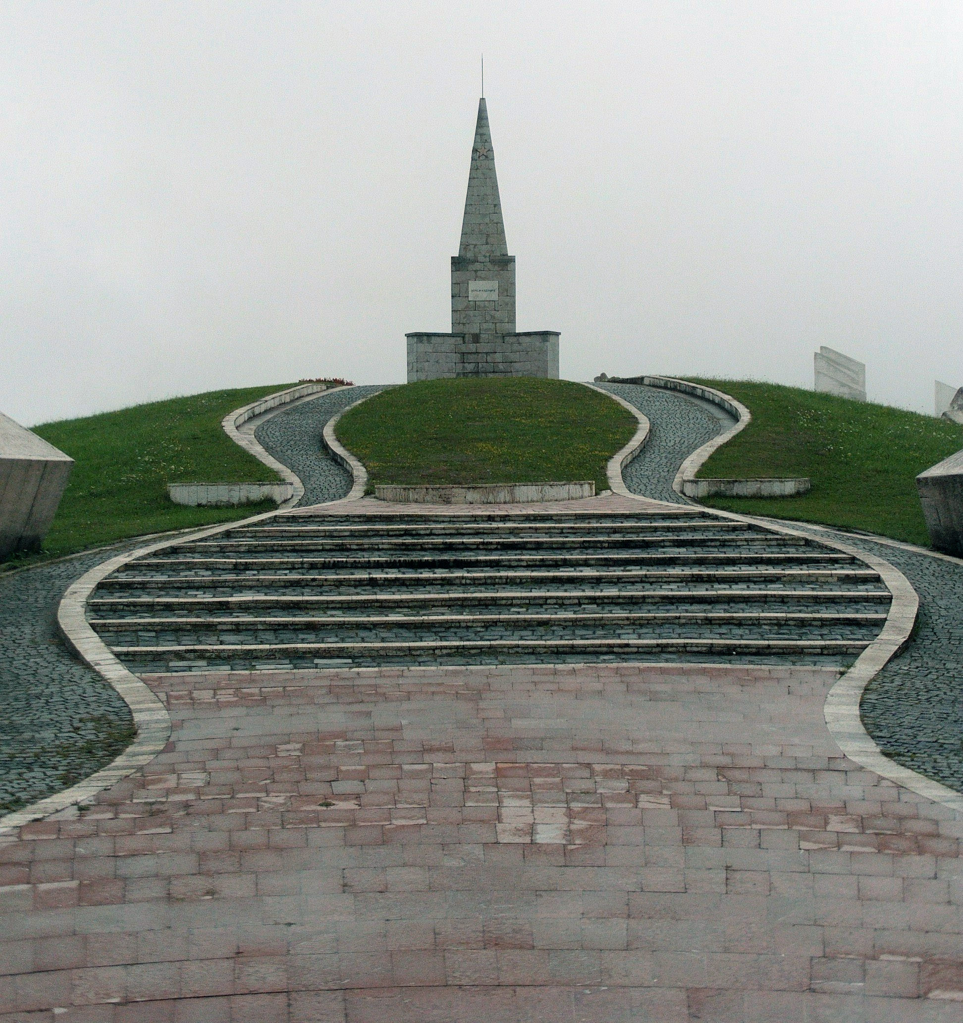 Kadinjača Memorial Complex, Užice, Serbia. Overview of the center